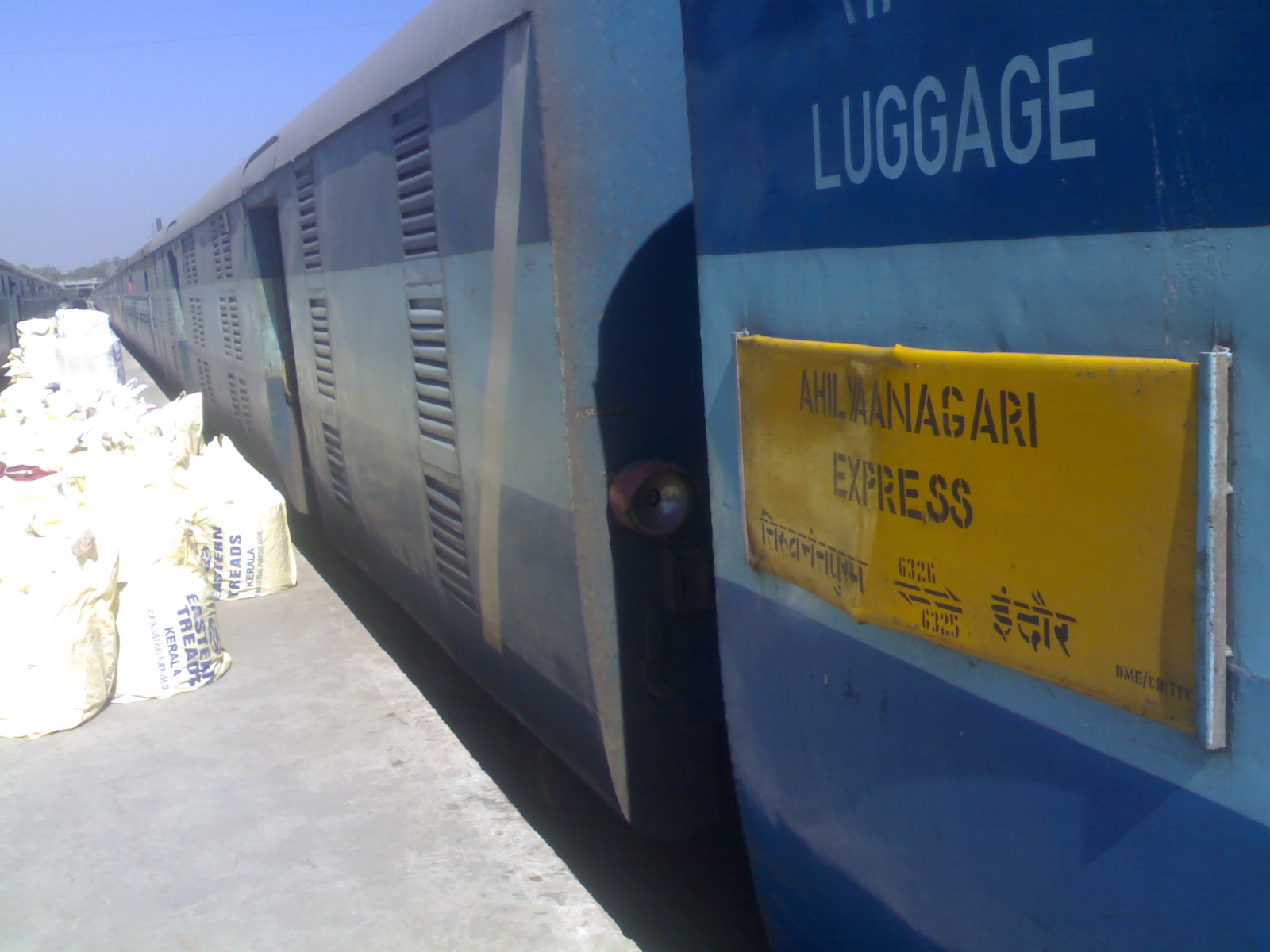 A Luggage coach of Ahilyanagari Express at Ernakulam Junction. The train connects Trivandrum with largest city of the state, Indore in Madhya Pradesh